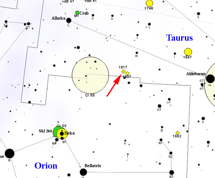 Map of NGC 1817